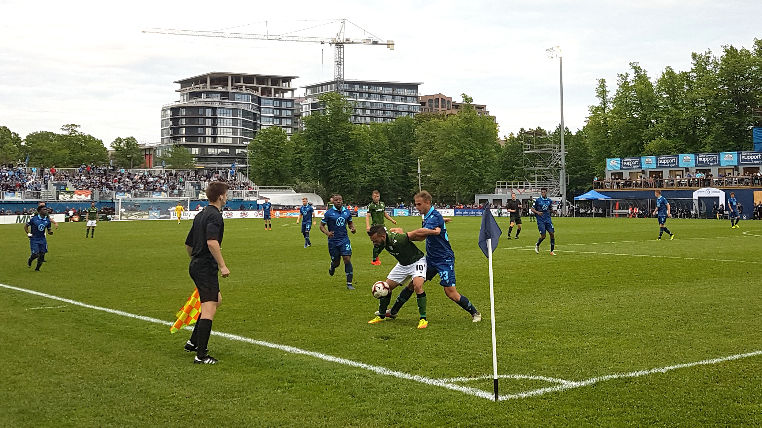 Full Album: HFX Wanderers FC - Cavalry FC 06/19/2019 Sergio Camaro (#10, Cavalry FC) disputing the ball with Matthew Arnone (#23, HFX Wanderers FC) during a Canadian Premier League at Wanderers Grounds in Halifax, Nova Scotia, Canada, on June 19, 2019.